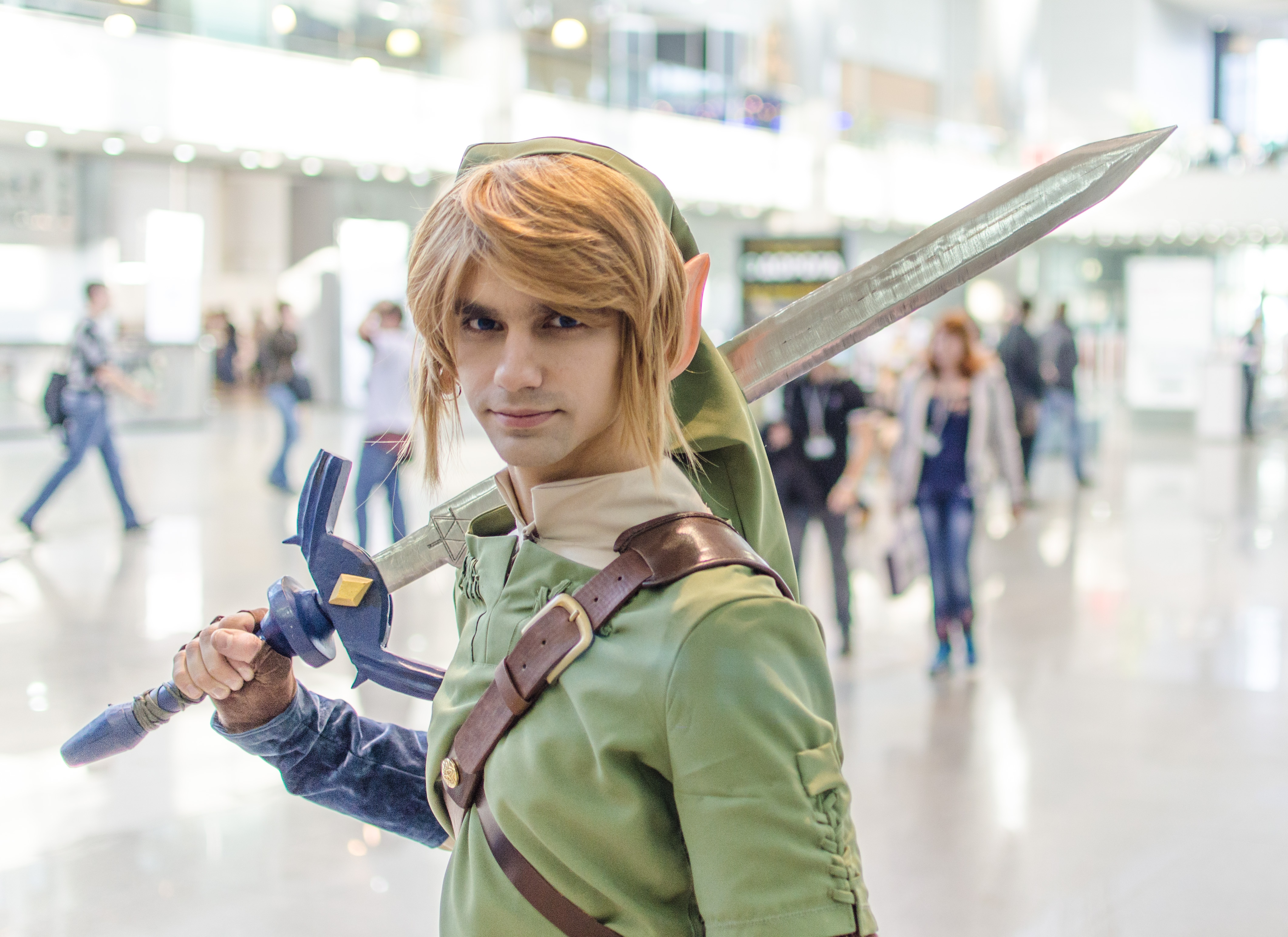 Taken on October 4, 2012 Nikon D5100